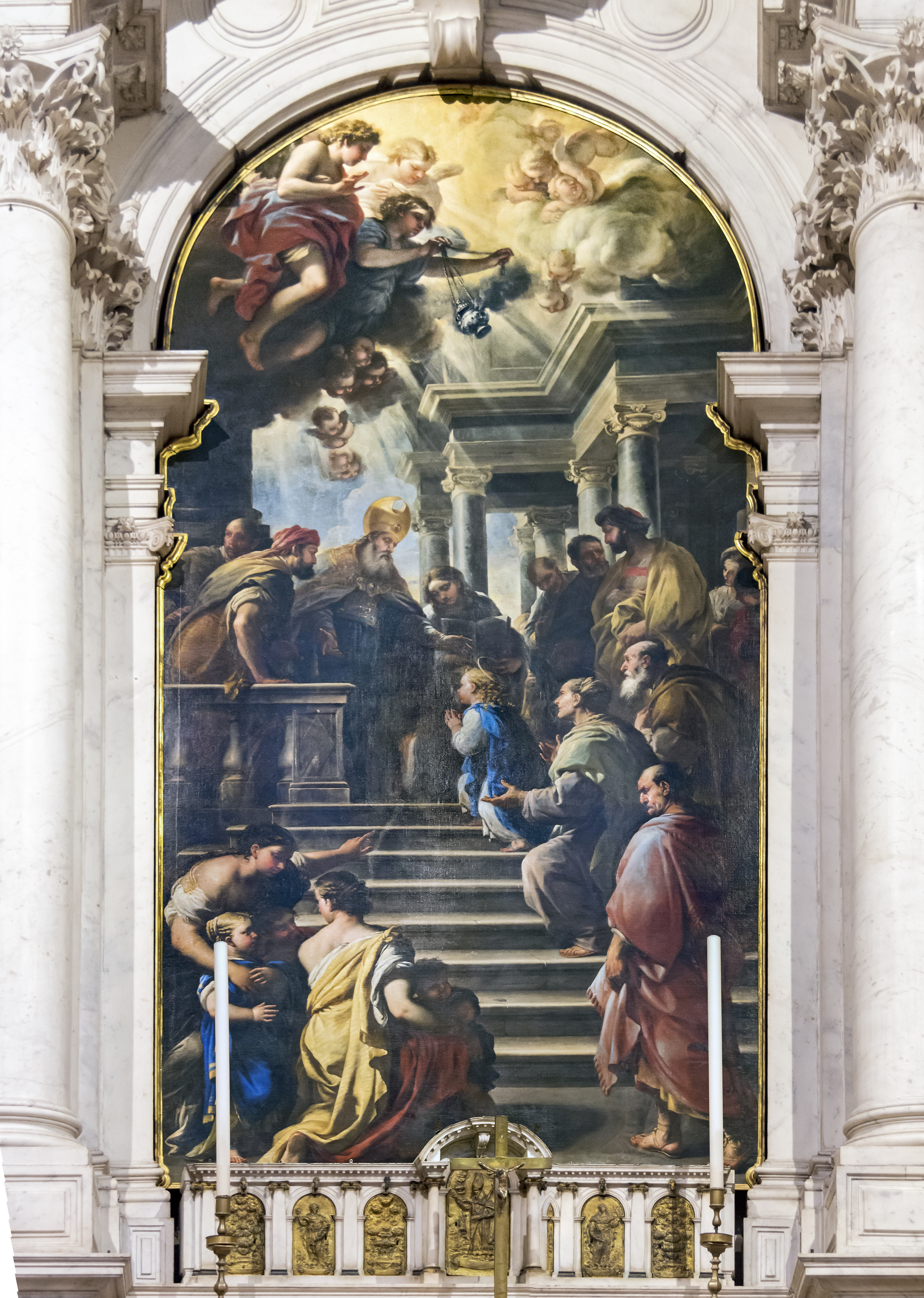 Santa Maria della Salute in Venice. Presentation of Mary at the Temple by Luca Giordano 1674.